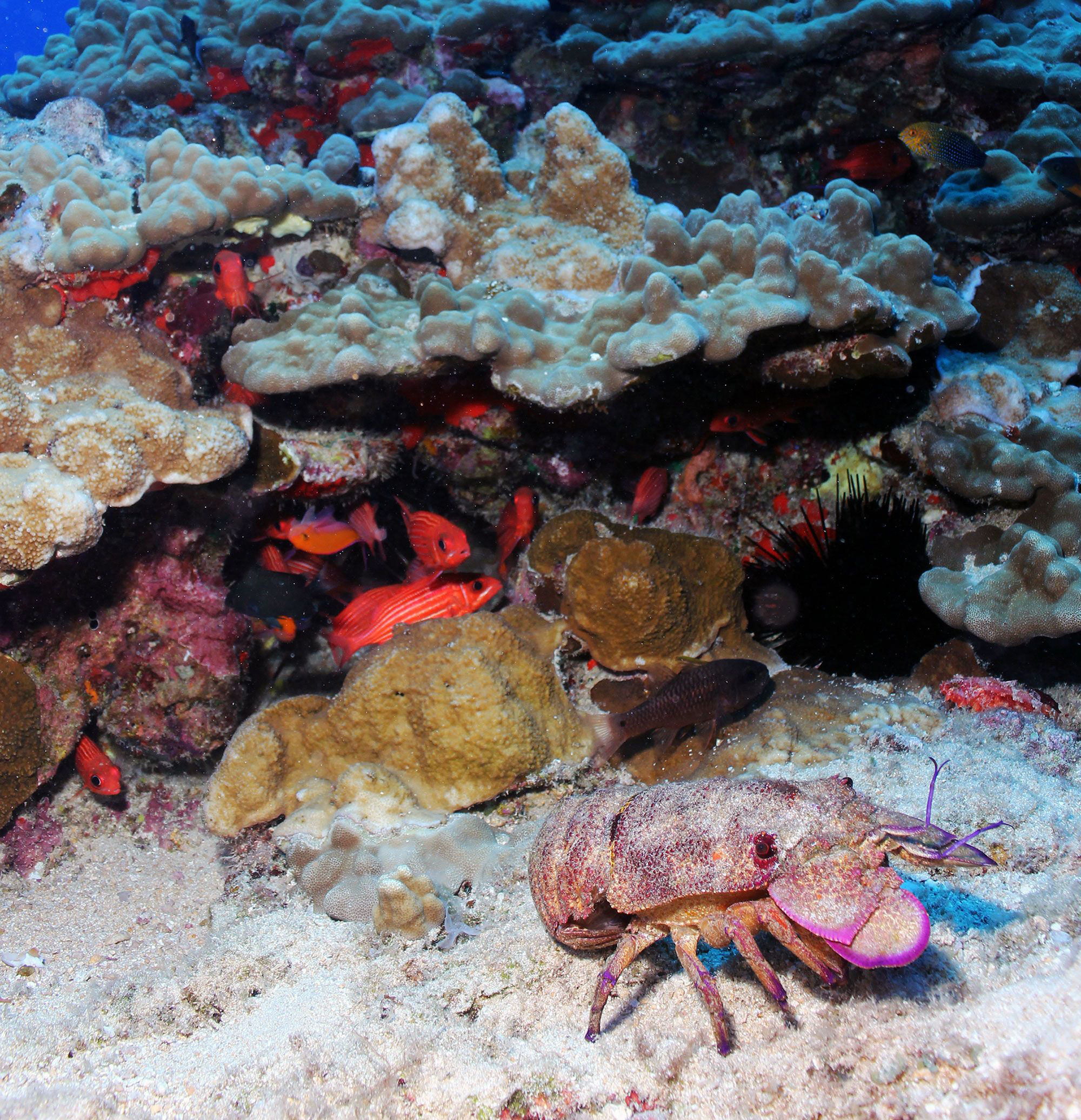 From NOAA: A regal slipper lobster (Arctides regalis) patrols a busy coral reef habitat of massive Porites and encrusting Monitpora corals off the coast of Moloka‘i in the main Hawaiian Islands